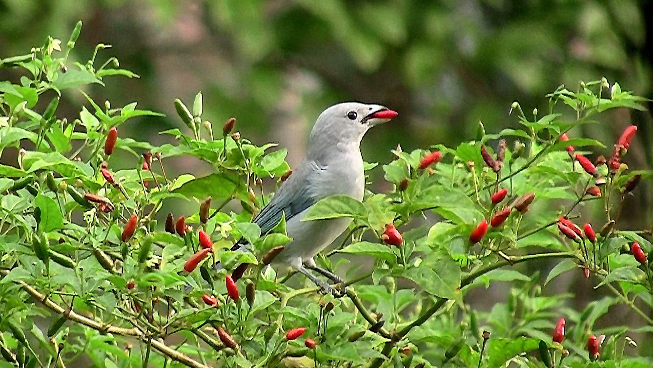 The Sayaca Tanager (Thraupis sayaca) is a species of bird in the Thraupidae family, the tanagers. Malagueta pepper, a kind of Capsicum frutescens, is a type of chilli used in Brazil, Portugal and Mozambique.